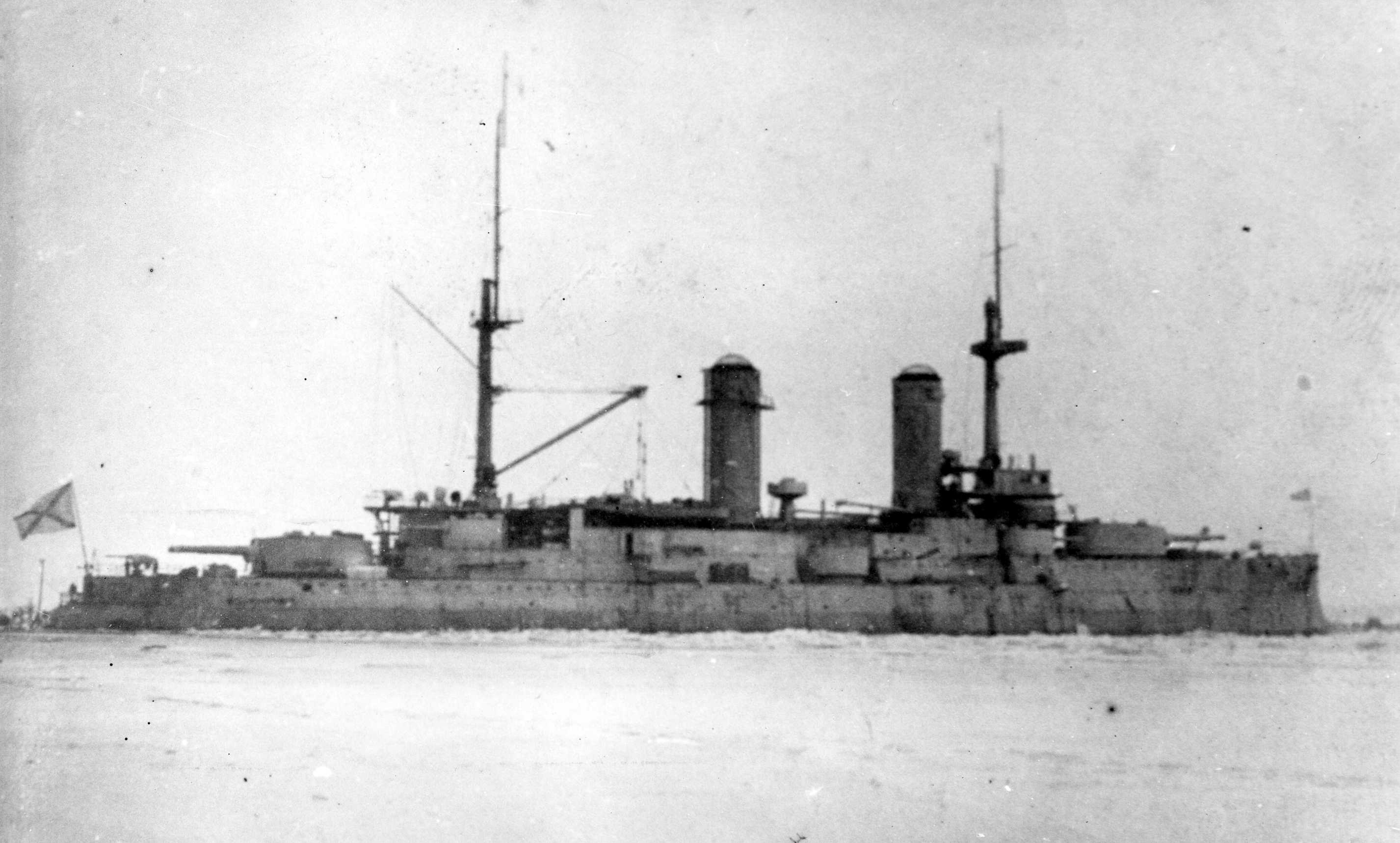 Imperial Russian battleship Slava after modernization.